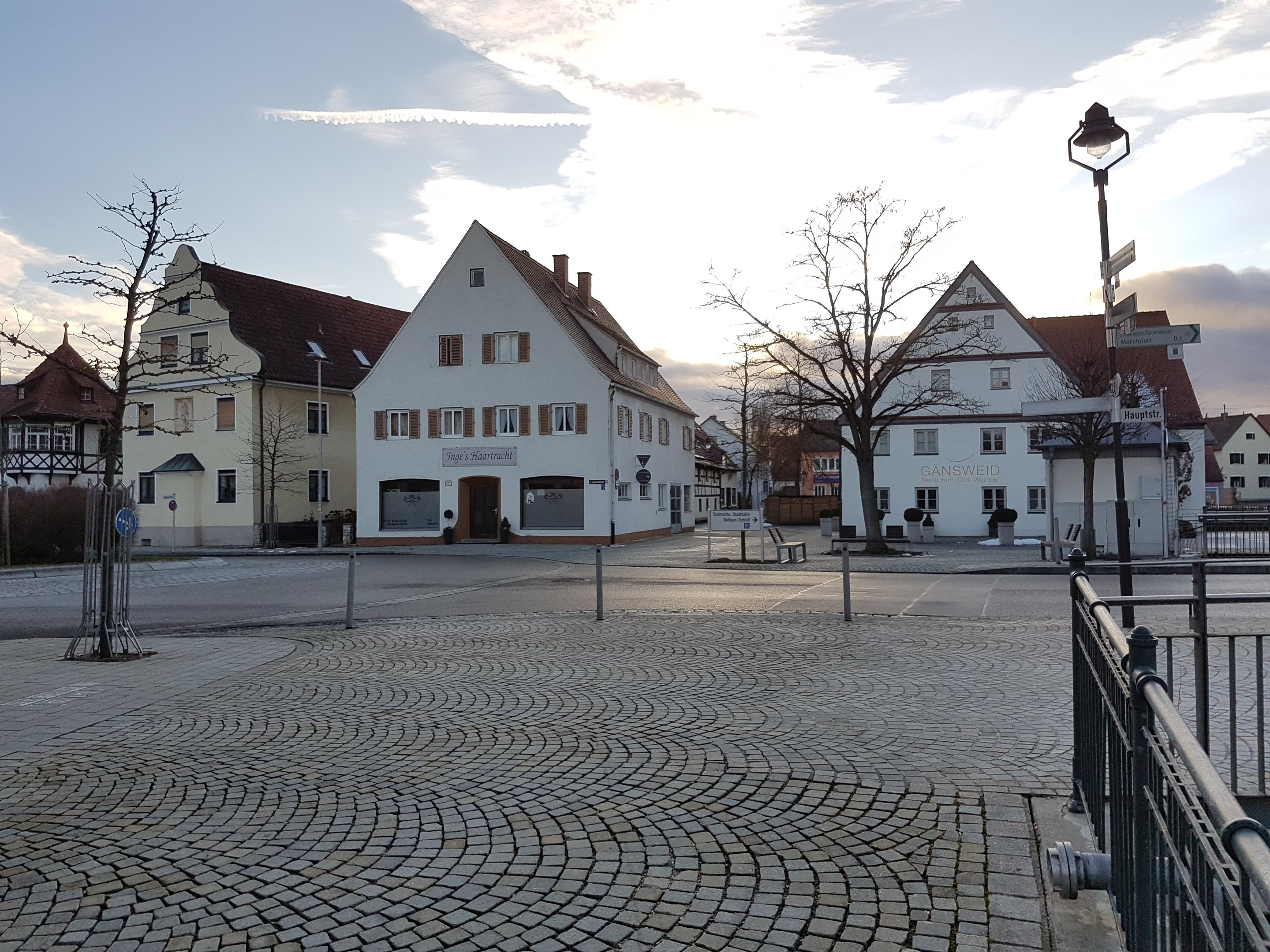 City of Wertingen